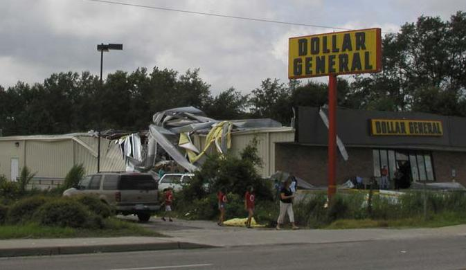 F1 tornado damage from Tropical Storm Bill in Hampton, South Carolina